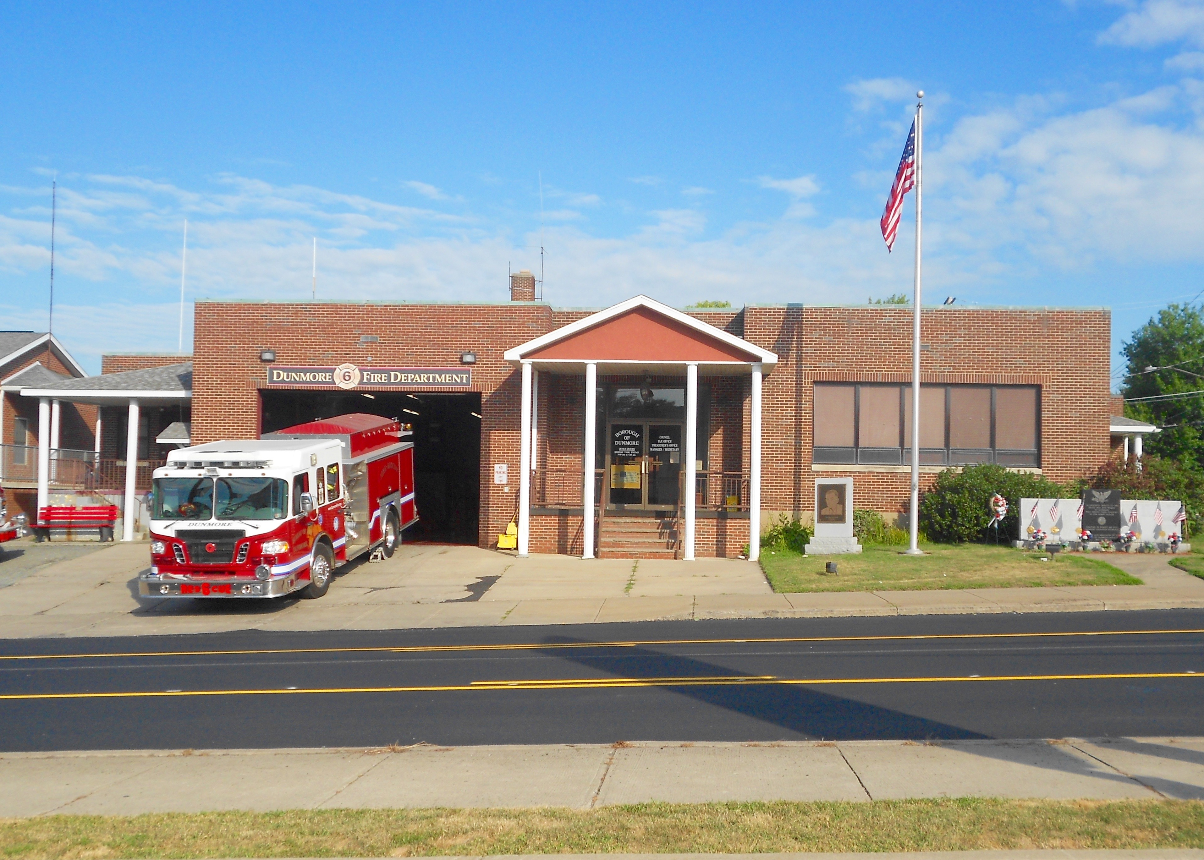 Dunmore Municipal Building and fire station in Dunmore, Lackawanna County, Pennsylvania